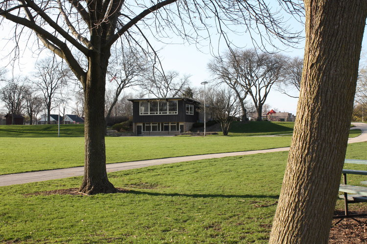 Photo of the Cooper Park pavilion from SE